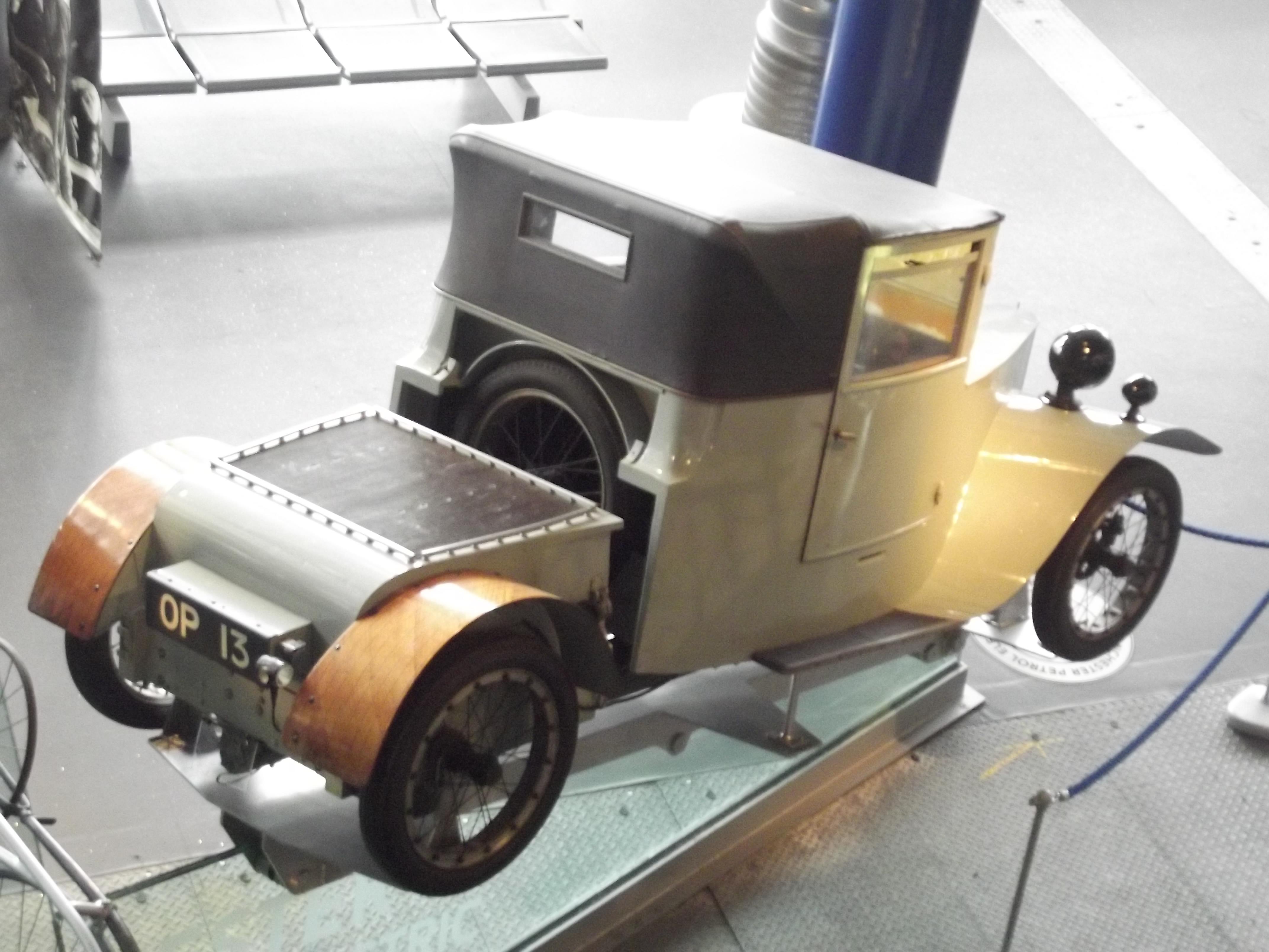 A collection of old vehicles on Level 0 of Thinktank Birmingham Science Museum. The area called "Move It" These were most likely in display at one time or another in the old Science Museum on Newhall Street (until 1997). When not on display, some of them had been stored at the Museum Collections Centre on Dollman Street in Nechells. This is the Lanchester Petrol Electric Motorcar. First built as an experiment by Fred Lanchester in 1927, at his workshop in Moseley, but it never went into production. As seen from the mezzanine level above.